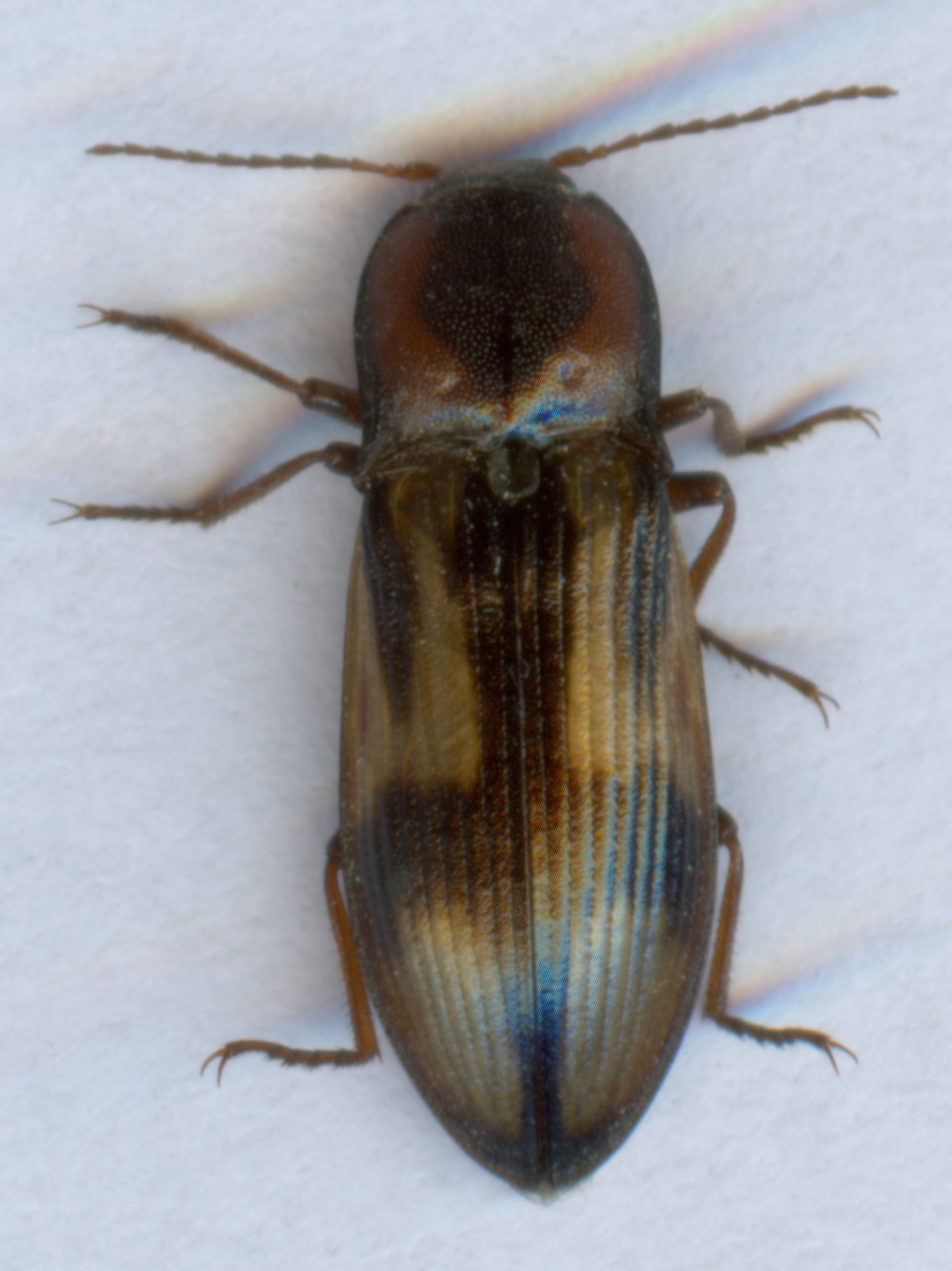 Selatosomus cruciatus (Linnaeus, 1758)